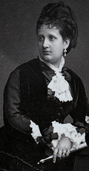 Maria Pia of Bourbon Two Sicilies 1849 - 1882 Duchess of Parma